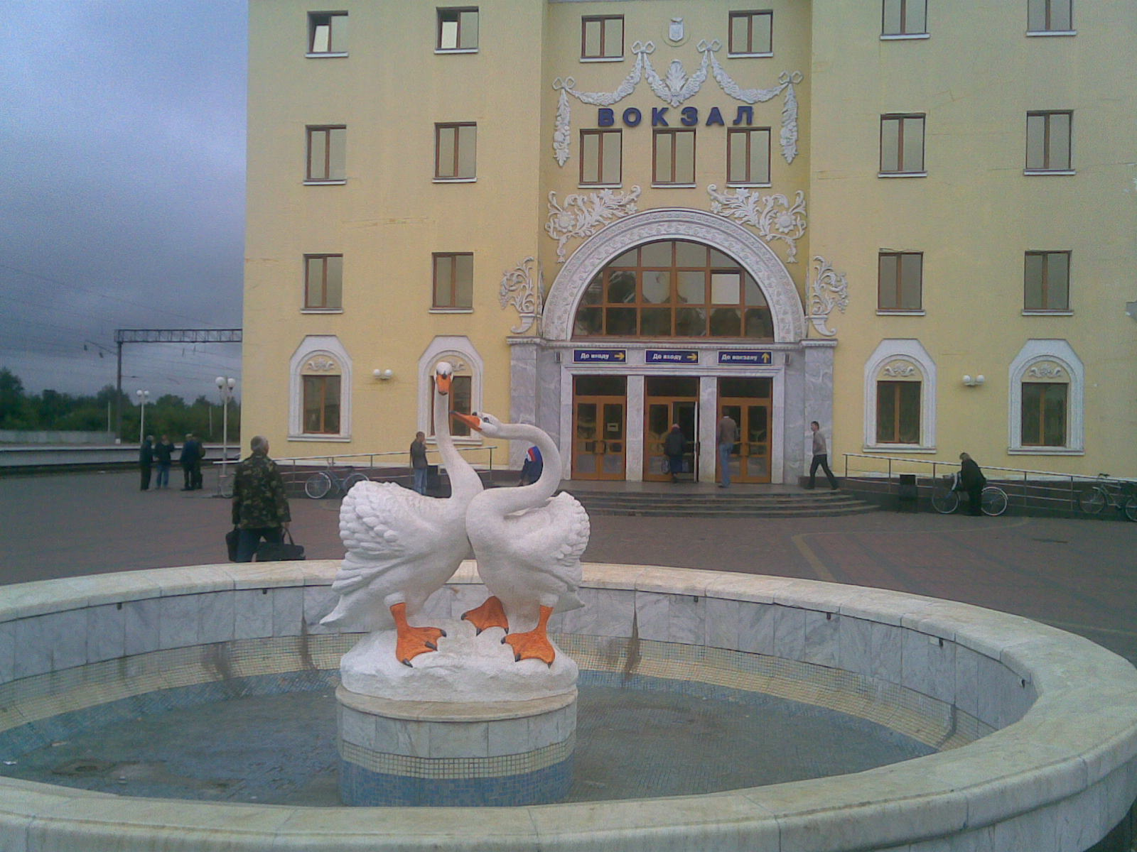 Bakhmach-Pasazhyrskyi railway station, South-Western Railway, Ukraine